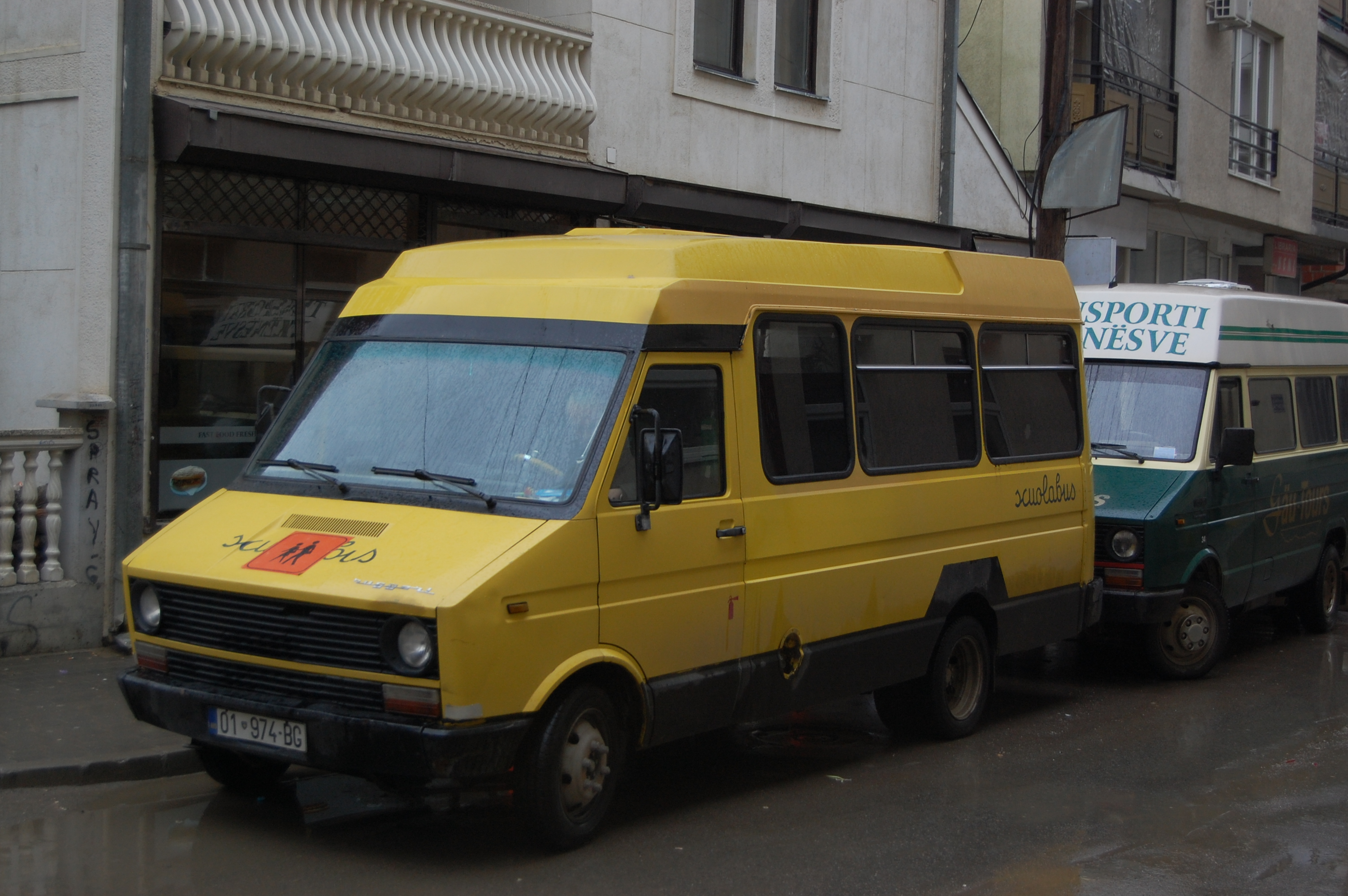 A school bus in Pristina, Kosovo.